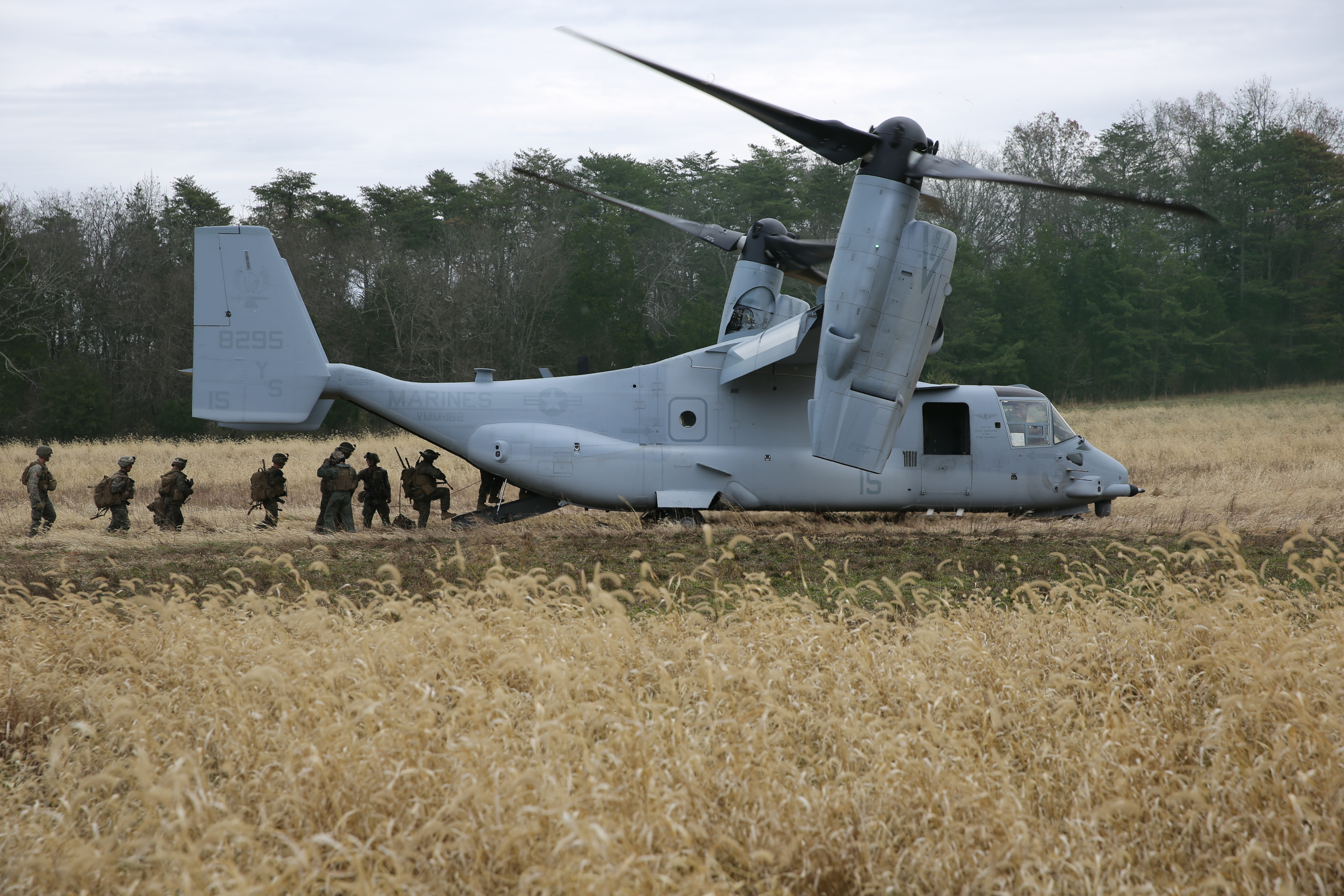 Marines with Weapons Company, 3rd Battalion, 8th Marine Regiment board an MV-22 Osprey during a Tactical Recovery of Aircraft and Personnel mission aboard Marine Corps Base Camp Upshur, Va., November 26. The mission was a scenario during the battalion's Alternate Mission Rehearsal exercise in preparation for an upcoming deployment.